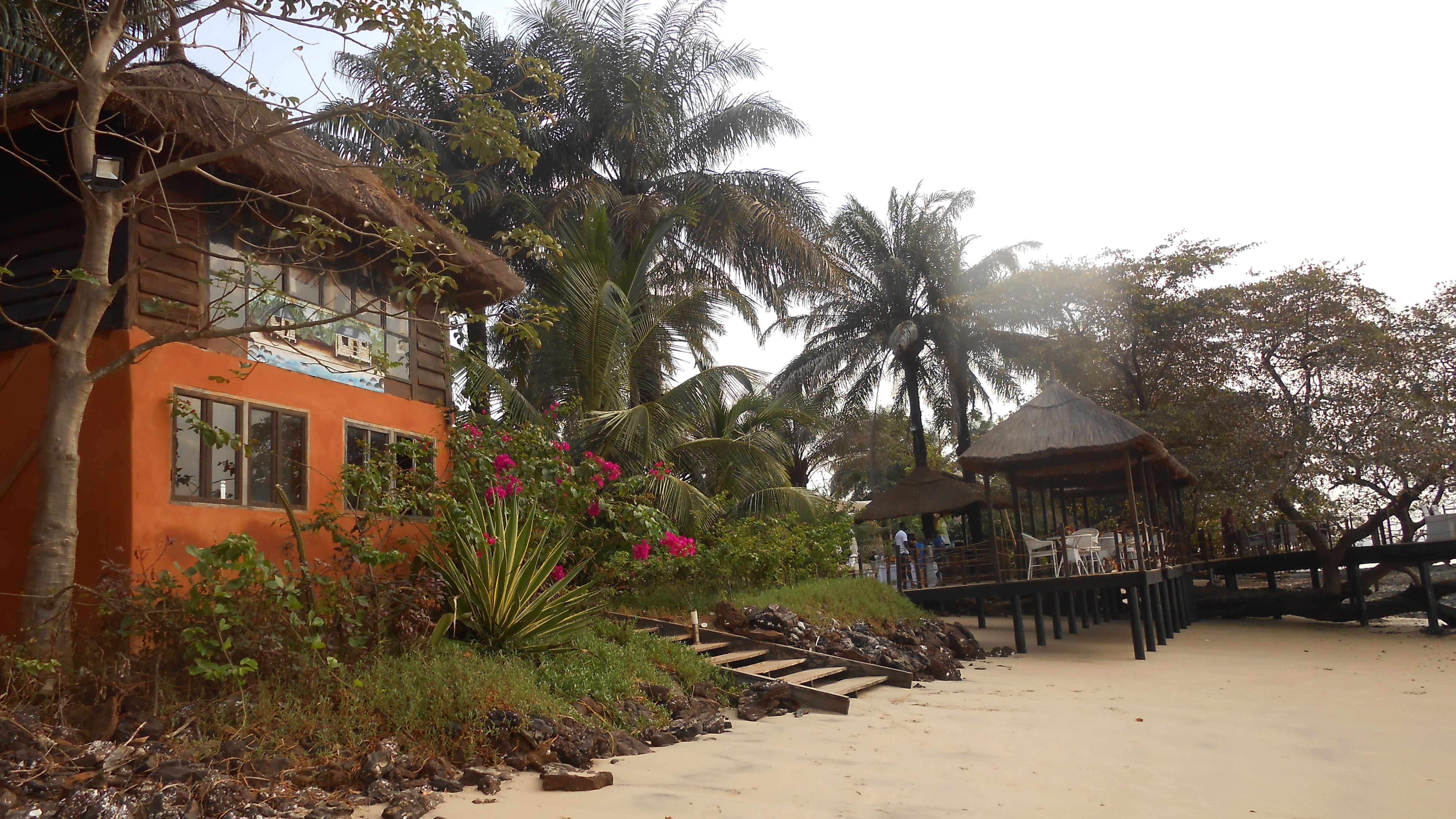 The Hotel Ecolodge Ponta Anchaca on the Rubane island in the archipelago of Bissagos Islands.